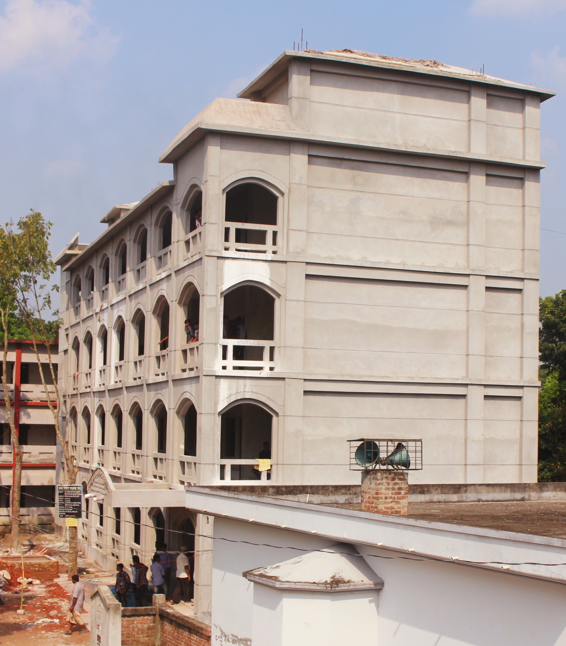 Dighapotia College (ICT buildin)